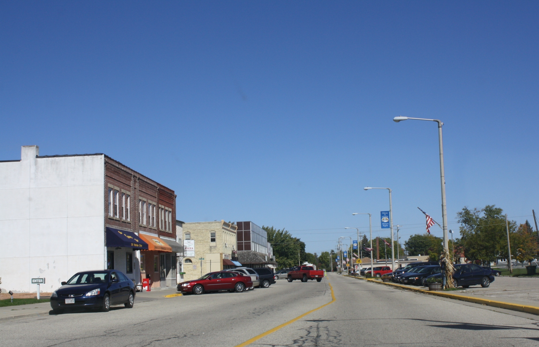 Looking north in downtown Milton, Wisconsin. It is listed on the National Register of Historic Places.